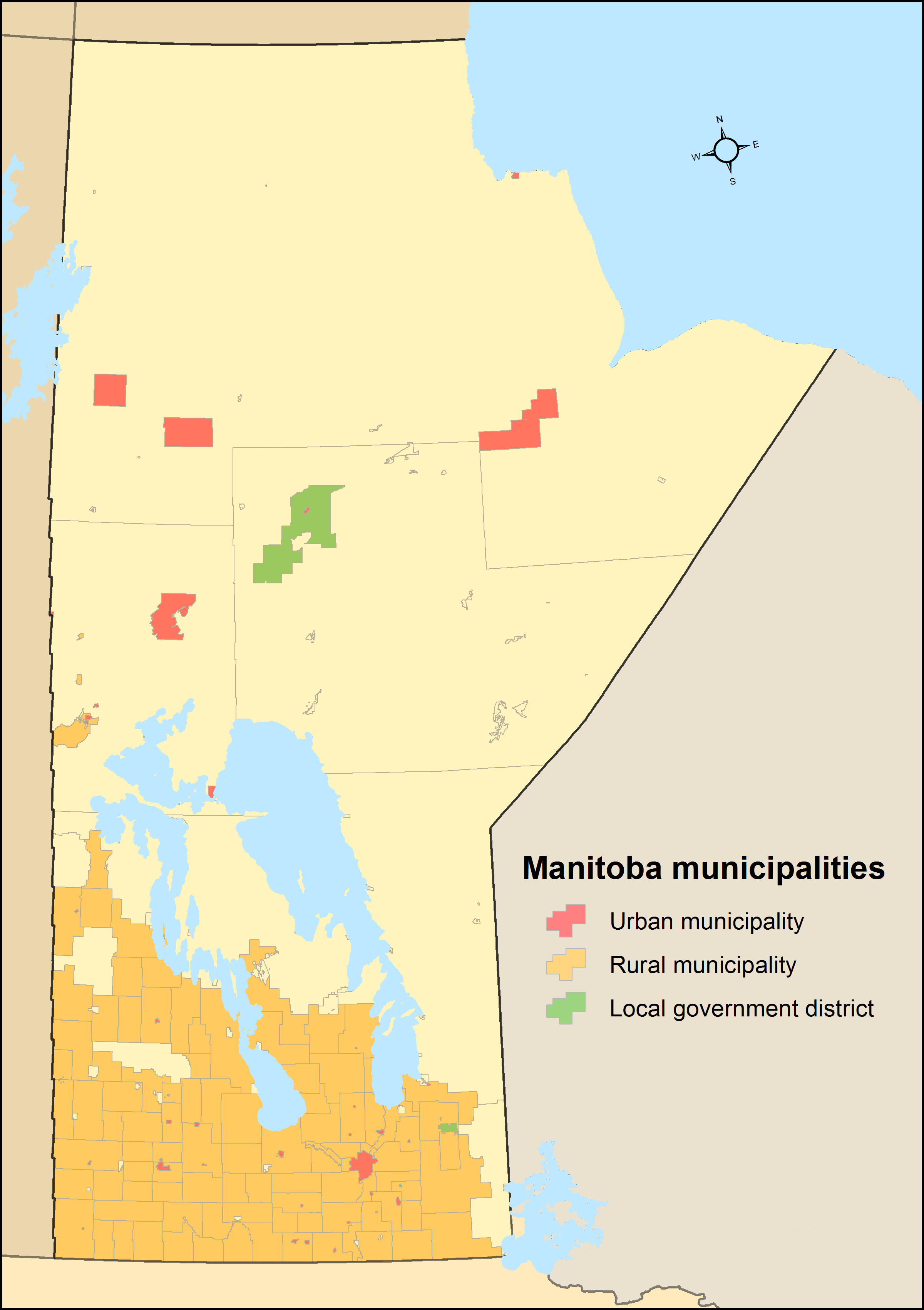 Distribution of Manitoba's 137 municipalities (37 urban municipalities, 98 rural municipalities and 2 local government districts) utilizing Statistics Canada's 2015 intercensal census subdivision boundaries. These boundaries reflect the amalgamation of 107 municipalities into 47 municipalities that occurred effective January 1, 2015.